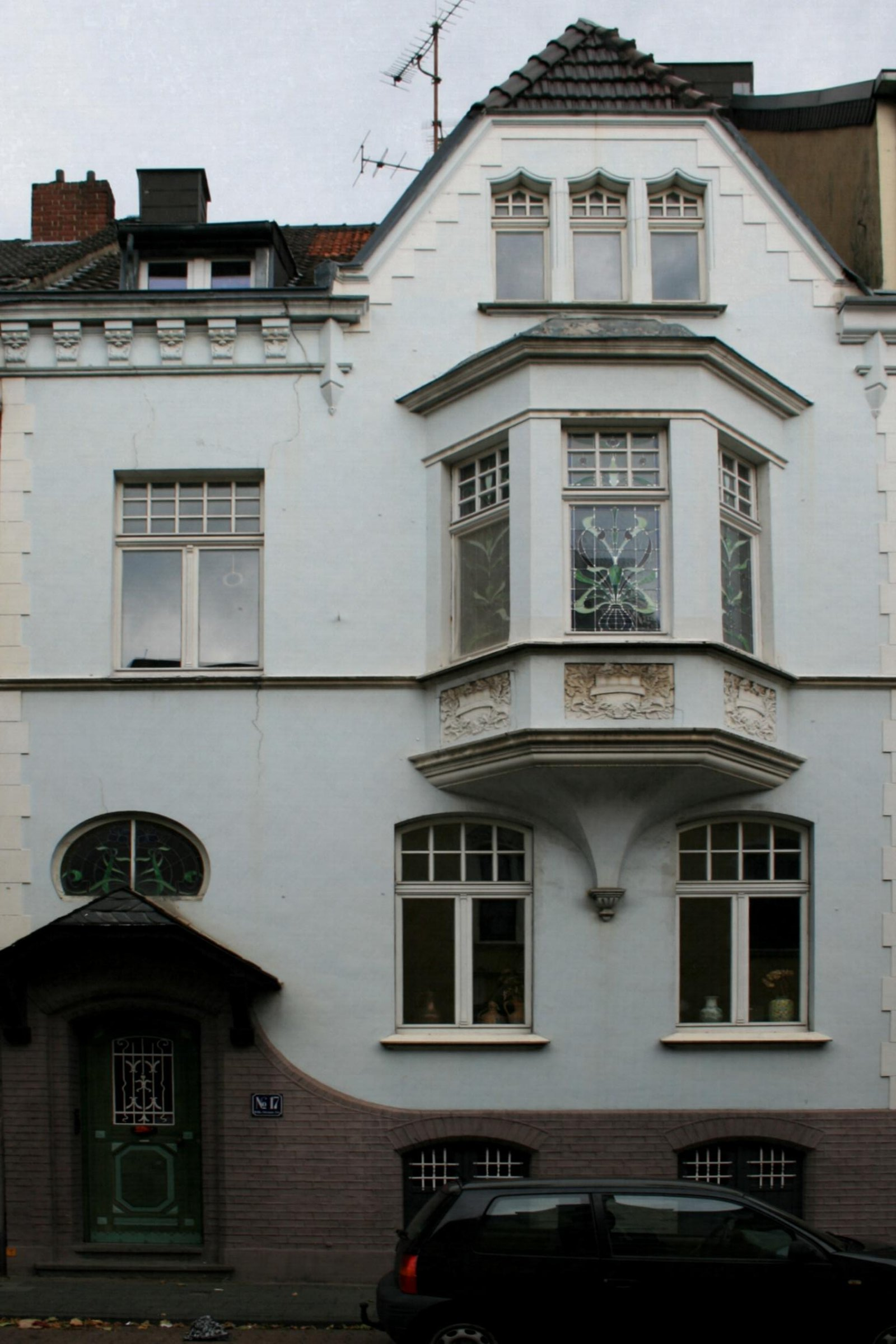 Cultural heritage monument No. W 022 in Mönchengladbach